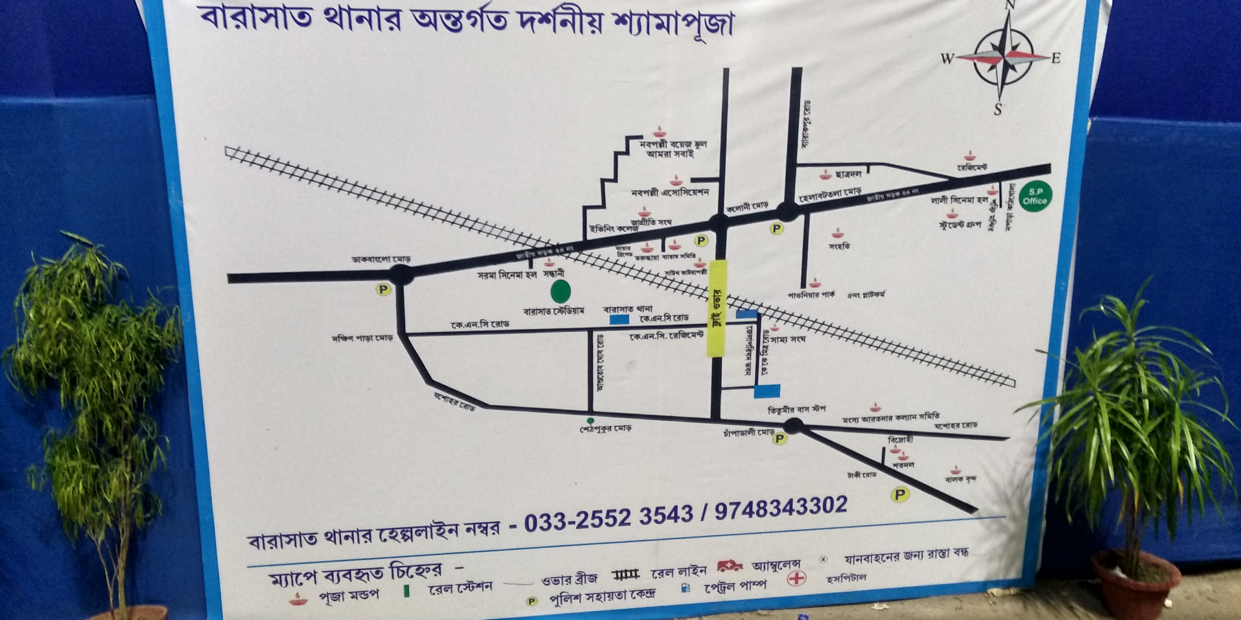 Barasat is famous for Kalipuja. This is the guide map of some famous puja pandals of barasat.